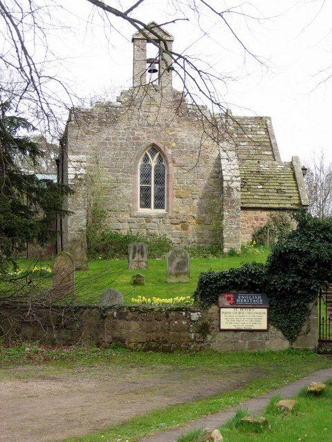 St Peter's Parish Church, Chillingham "The church was founded in the 12th century and retains some of the Norman stonework. The south chapel of Our Lady contains the 15th century tomb of Sir Ralph Grey and his wife, Elizabeth." Text of welcome sign beside entrance to churchyard.